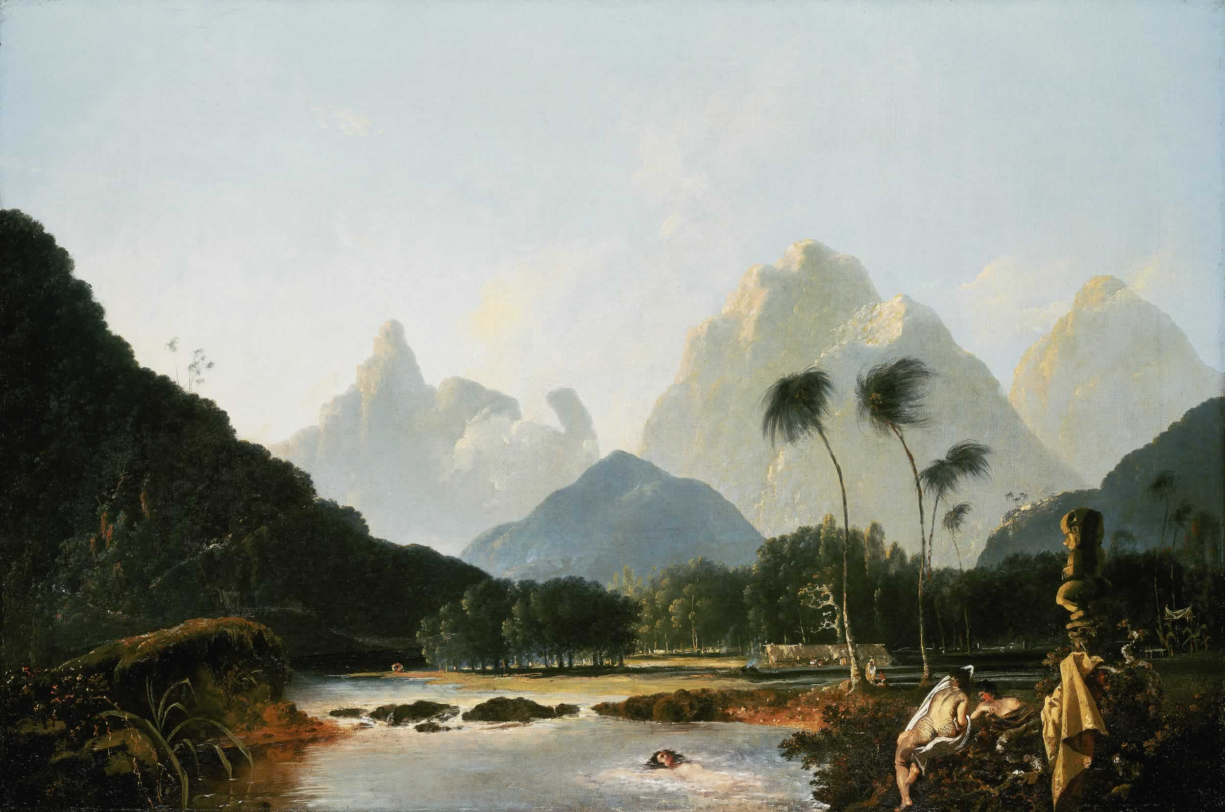 A view taken in the Bay of Otaheite Peha (Vaitepiha)